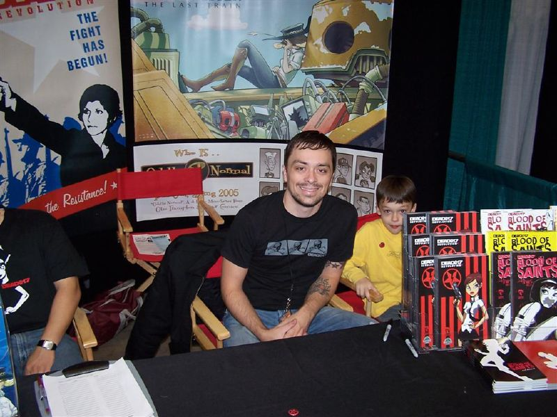 Josh Howard at WW 2004, I believe this was the release of Dead@17:Revolution